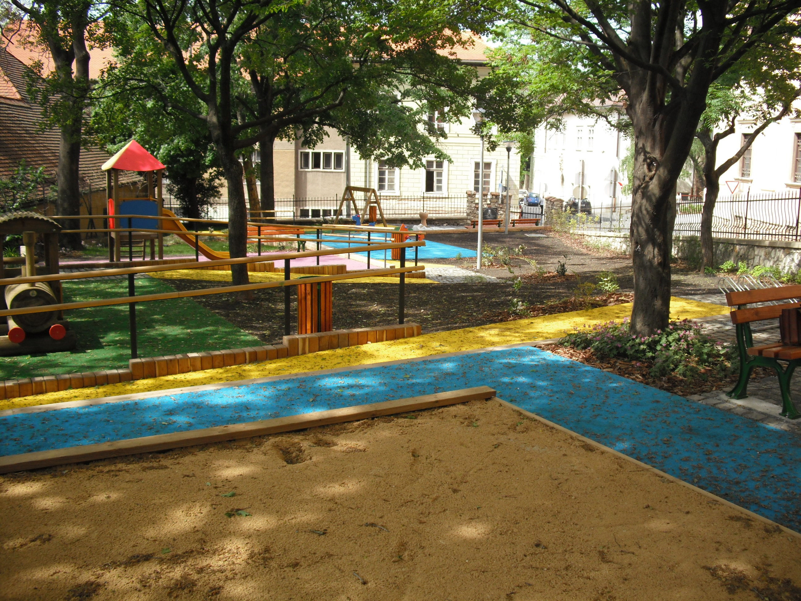 Esperanto Park as a playground (Pécs, Hungary)